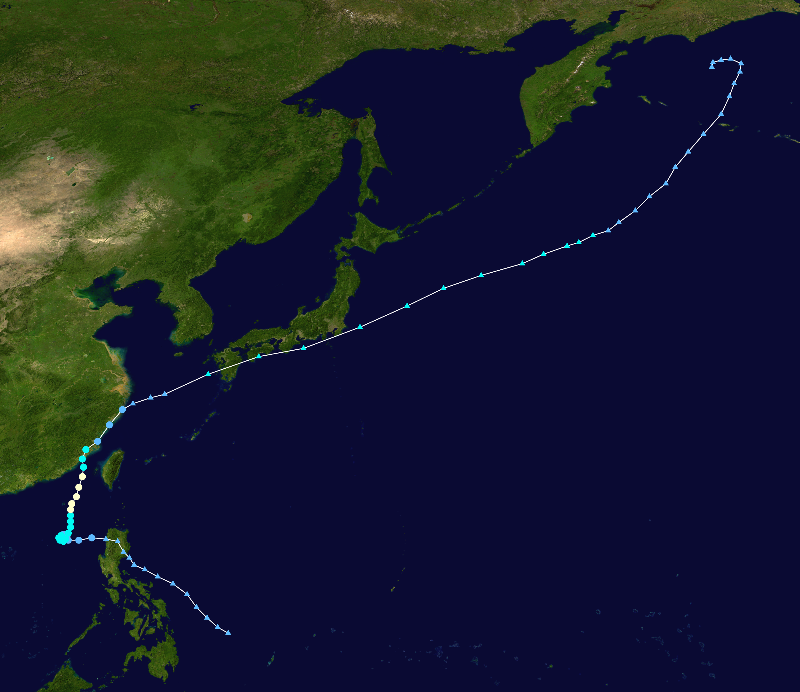 Track map of Severe Tropical Storm Linfa of the 2009 Pacific typhoon season. The points show the location of the storm at 6-hour intervals. The colour represents the storm's maximum sustained wind speeds as classified in the Saffir–Simpson scale (see below), and the shape of the data points represent the nature of the storm, according to the legend below. Saffir–Simpson scale Tropical depression≤38 mph≤62 km/h Category 3111–129 mph178–208 km/h Tropical storm39–73 mph63–118 km/h Category 4130–156 mph209–251 km/h Category 174–95 mph119–153 km/h Category 5≥157 mph≥252 km/h Category 296–110 mph154–177 km/h Unknown Storm type Tropical cyclone Subtropical cyclone Extratropical cyclone / Remnant low / Tropical disturbance / Monsoon depression